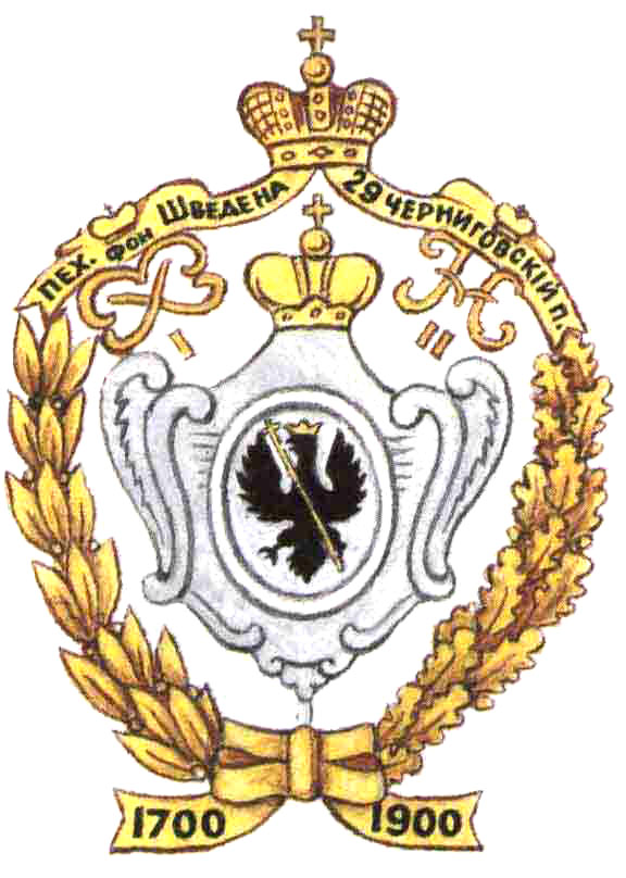 Badge of Chernigovsky 29-th Regiment